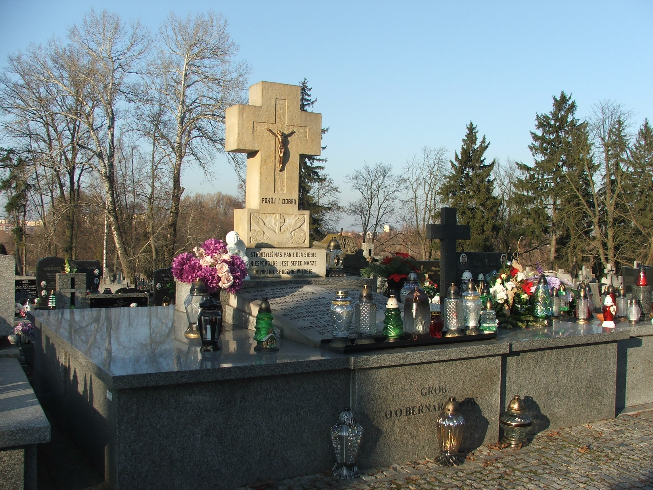 Roman Catholic cemetery in Radom - Bernardine tomb